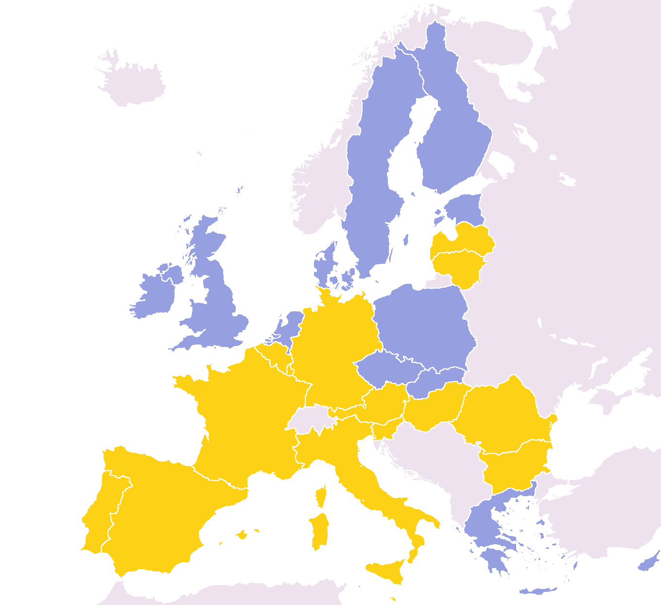 Map of those EU states cooperating in planned common divorce law